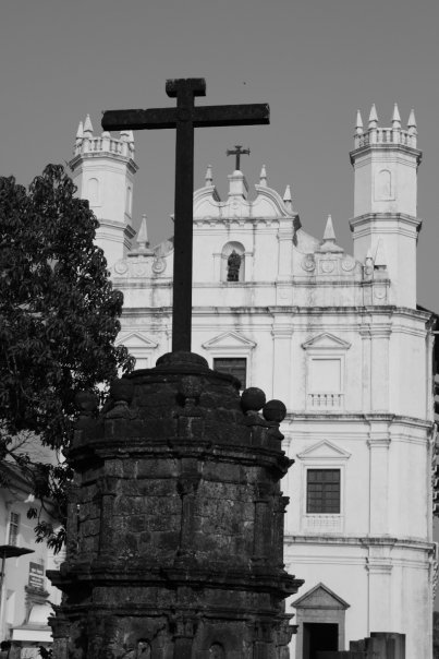 west side Se’ Cathedral